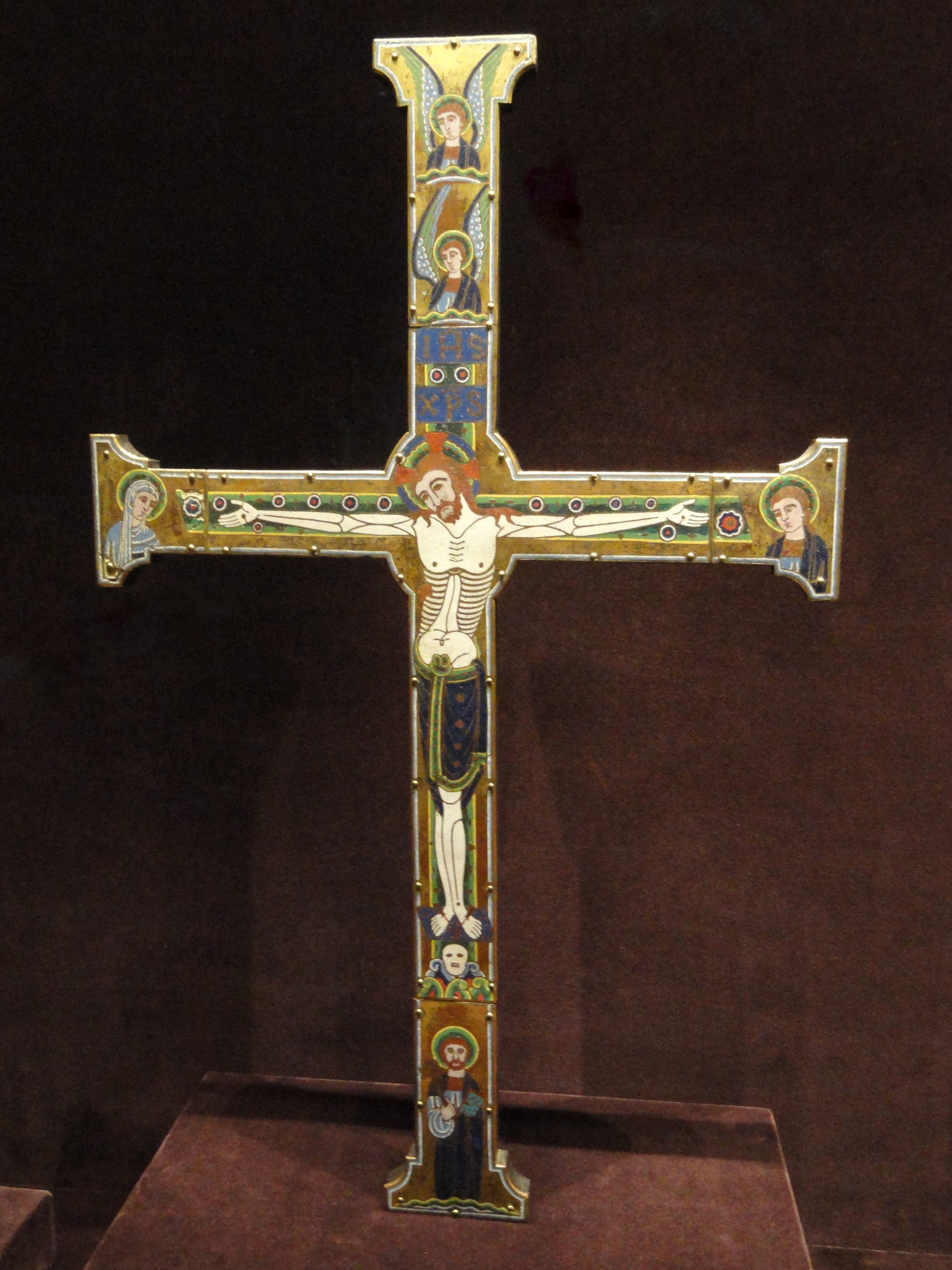 Exhibit in the Cleveland Museum of Art, Cleveland, Ohio, USA. This artwork is old enough so that it is in the public domain.